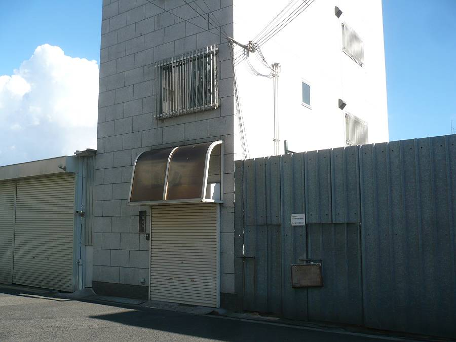 Yakuza office in Nishinari, Osaka